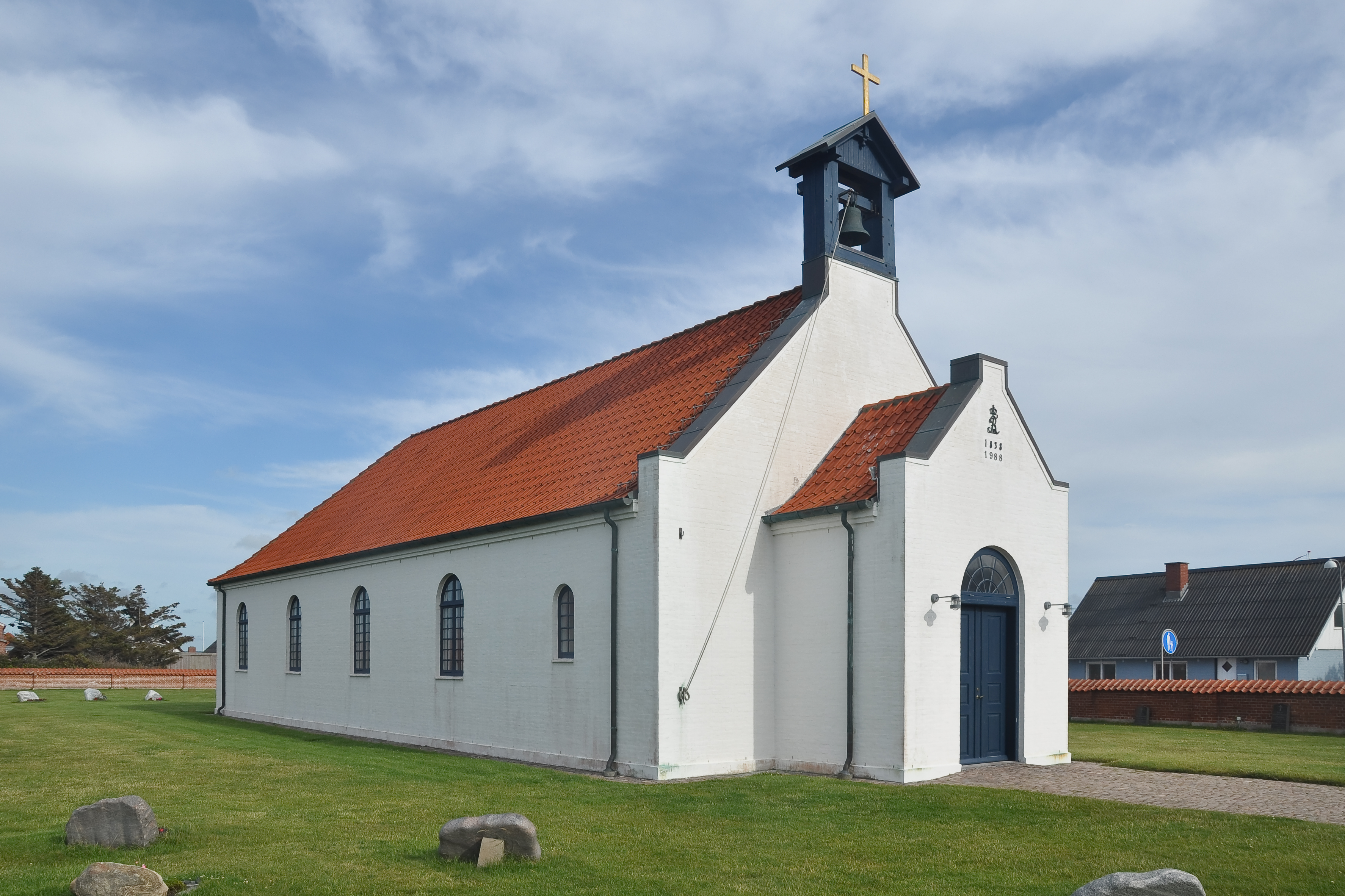 Agger Church in Thisted Municipality, Denmark.